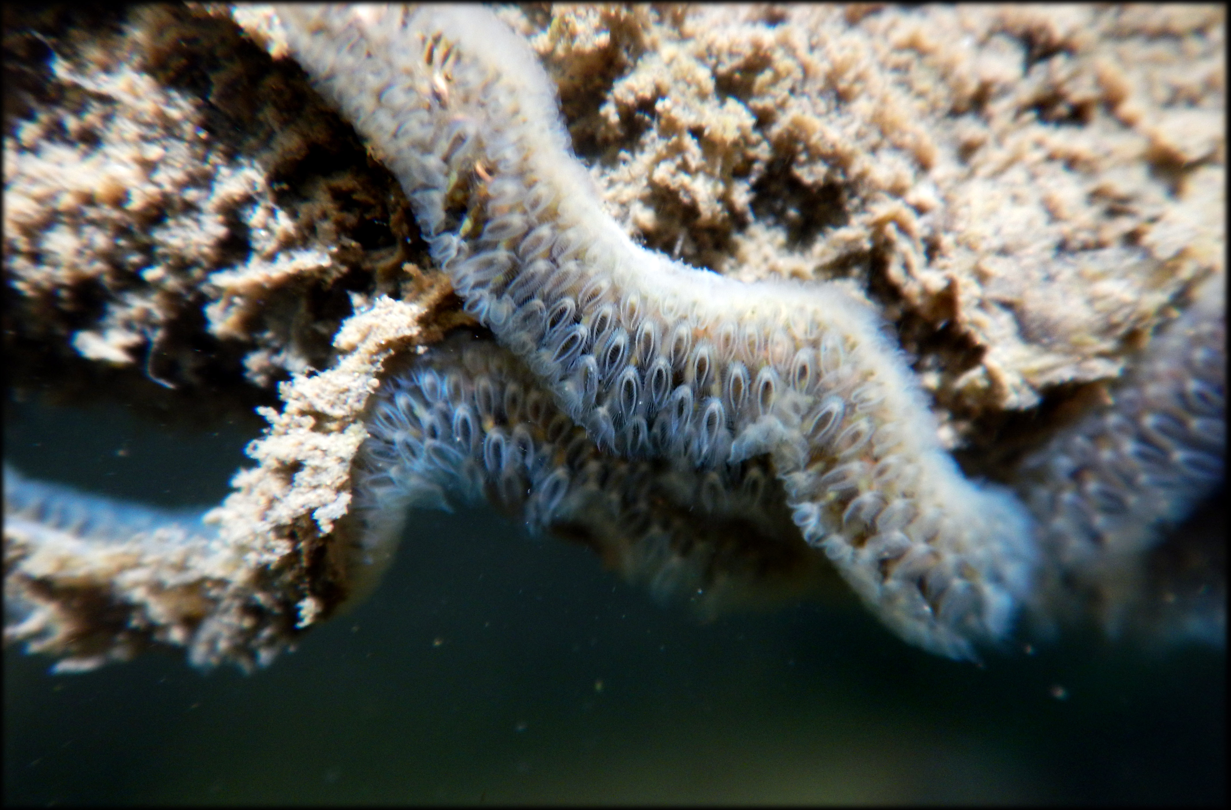 Bryozoan (cristatella mucedo) found living in colonies in the "Mid-Deûle" in the north of France - this fragile species seems to have appeared (or reappeared there) after import of clea water in the canal (over 2 million m3 / year)- . These animals lives in this case in a eutrophic water with sediments are polluted (formerly in constant contact with Upper-Deûle River, coming from the mining area (which were amongst the Métaleurop North Plant), on branches, wood piles, poles or walls ot the canal [but not or very rarely, and in this case may be accidentally) on the sediment] of this ancient channel (that is no longer open to traffic, replaced by a full-size section last more northwest).